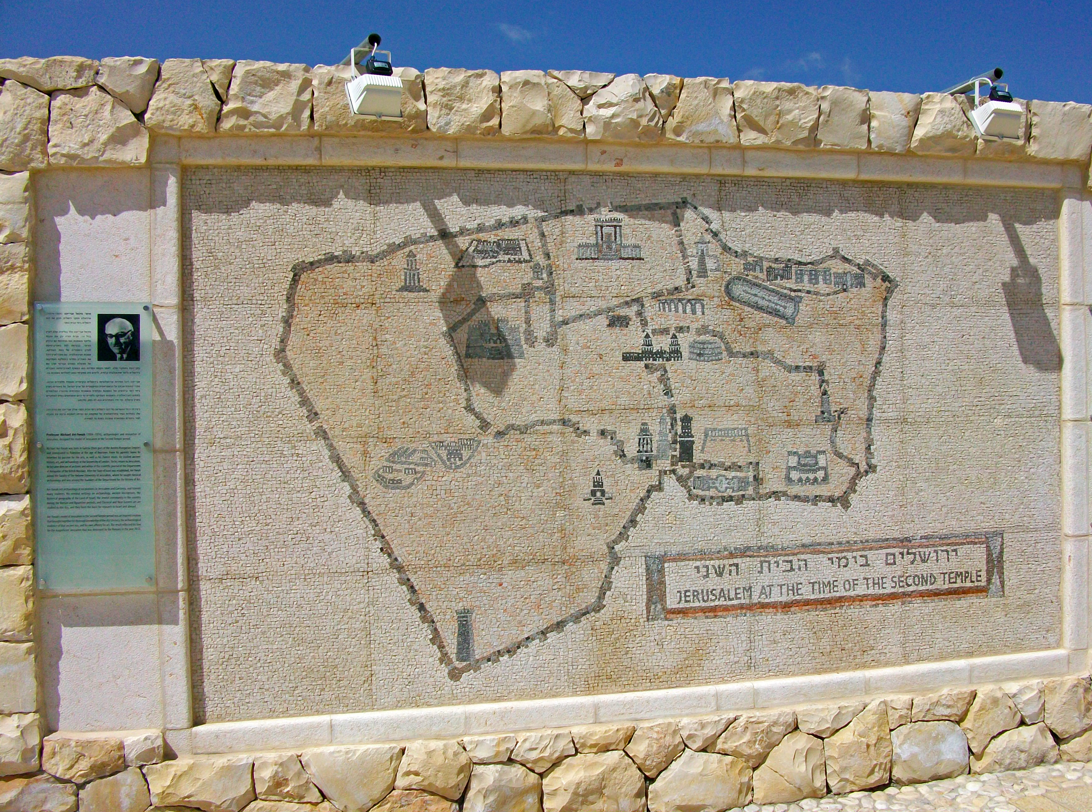 A mosaic key for the neighboring Holyland Model of Jerusalem at the Israel Museum